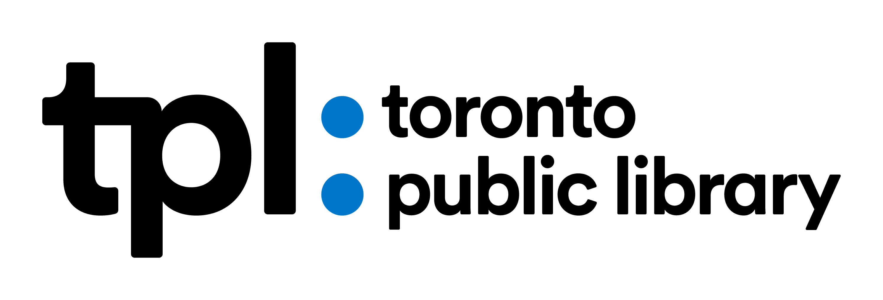 Toronto Public Library Logo